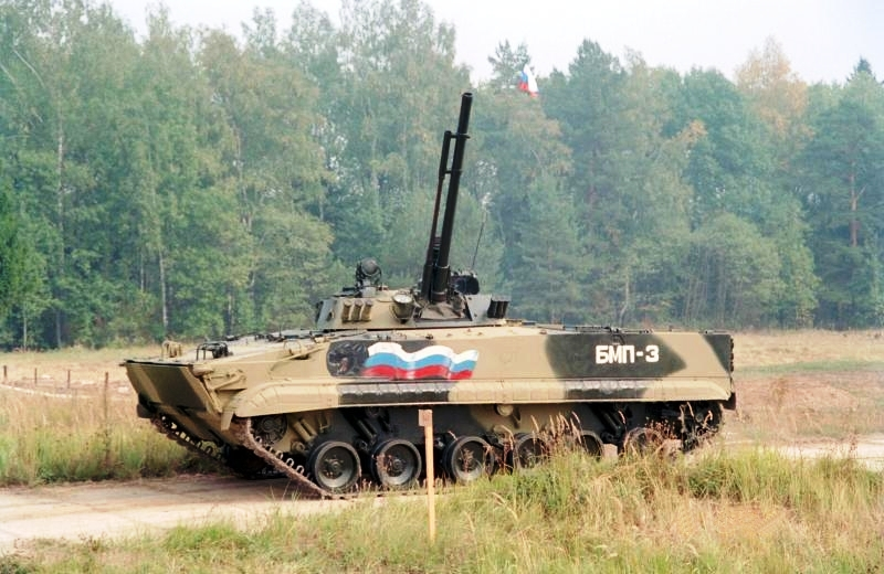 BMP-3 in Russian service.